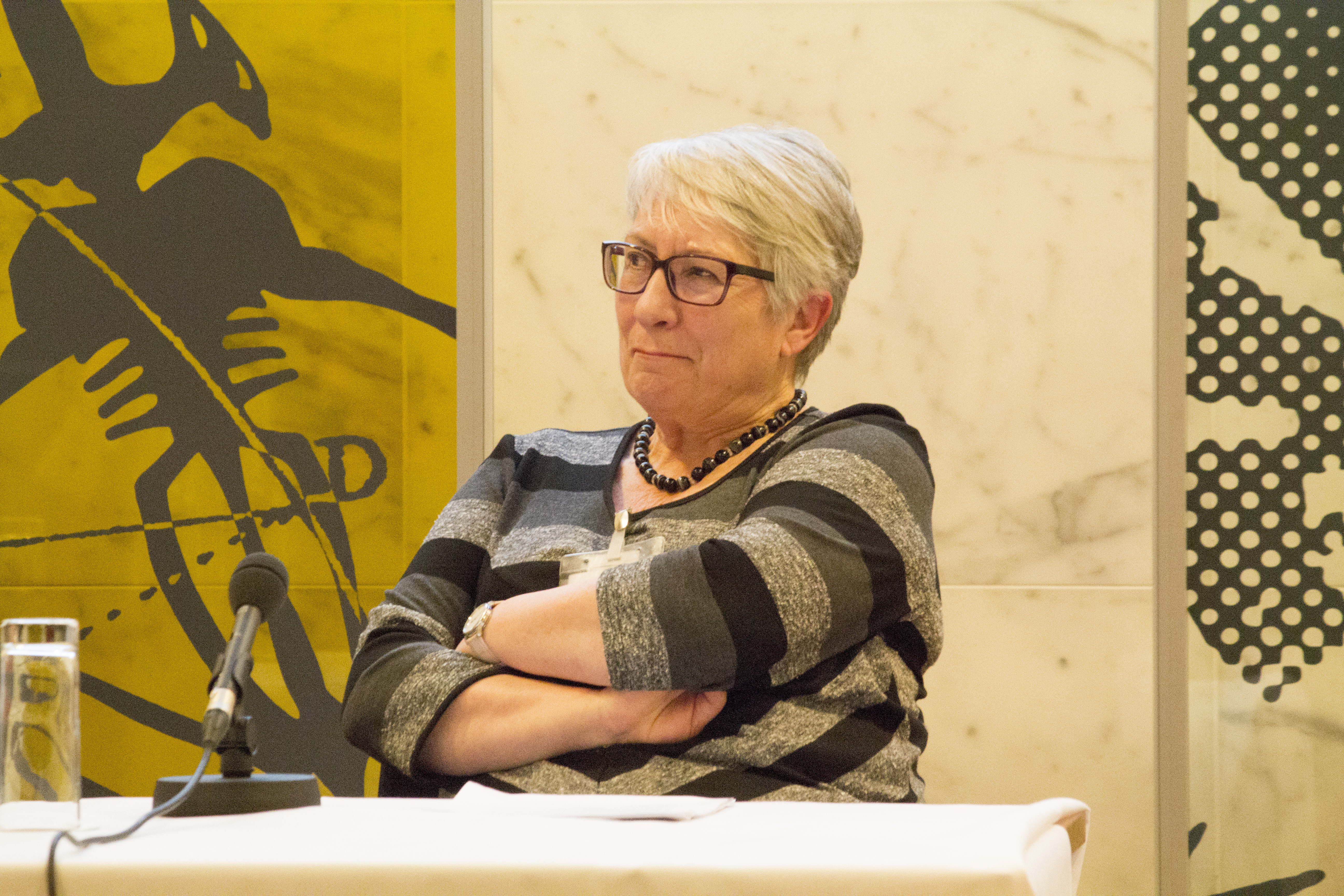 Royal Society Women in Science panel discussion.